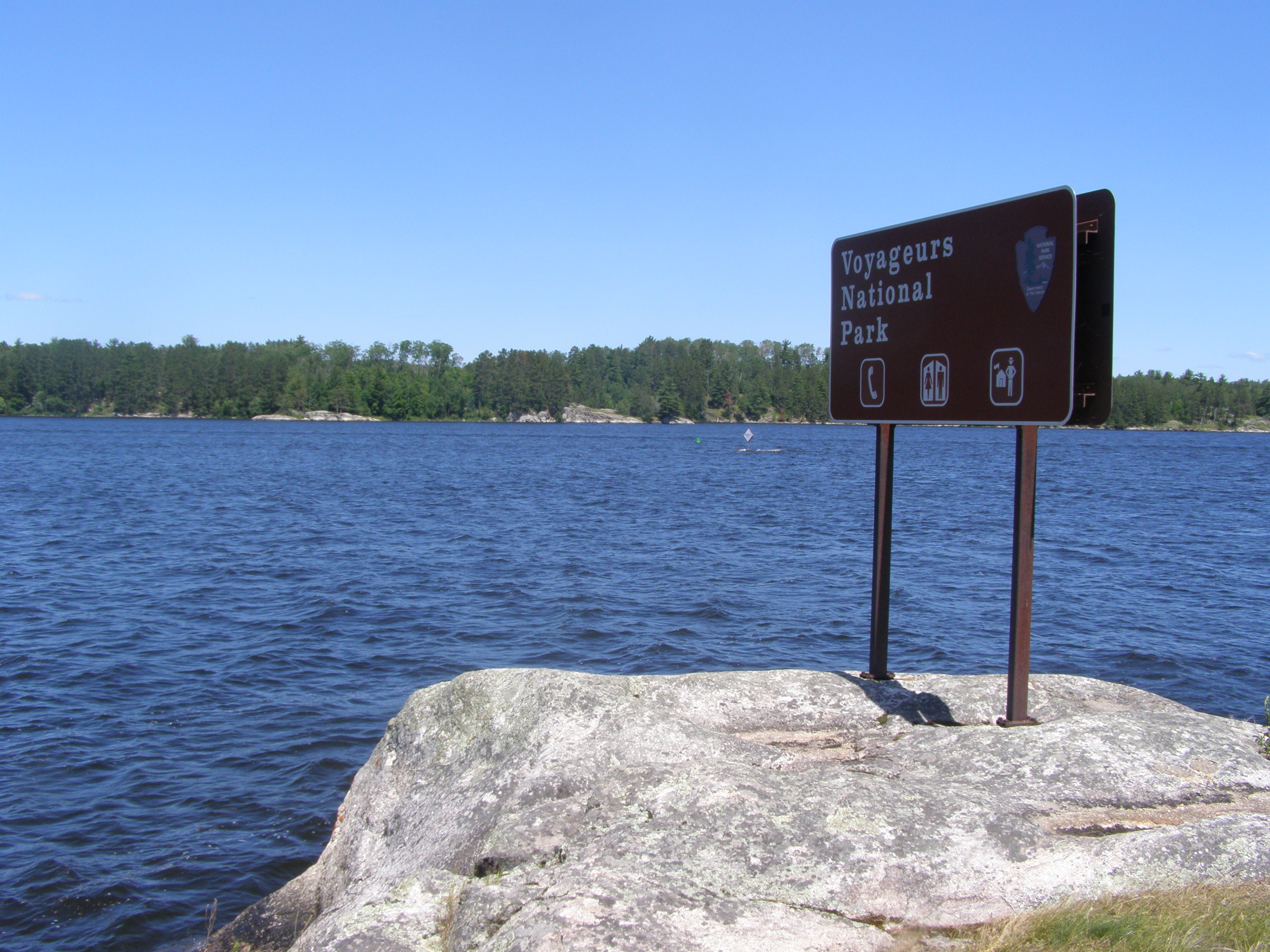 Kabetogama Narrows, Voyageur Nat'l Park, Minnesota